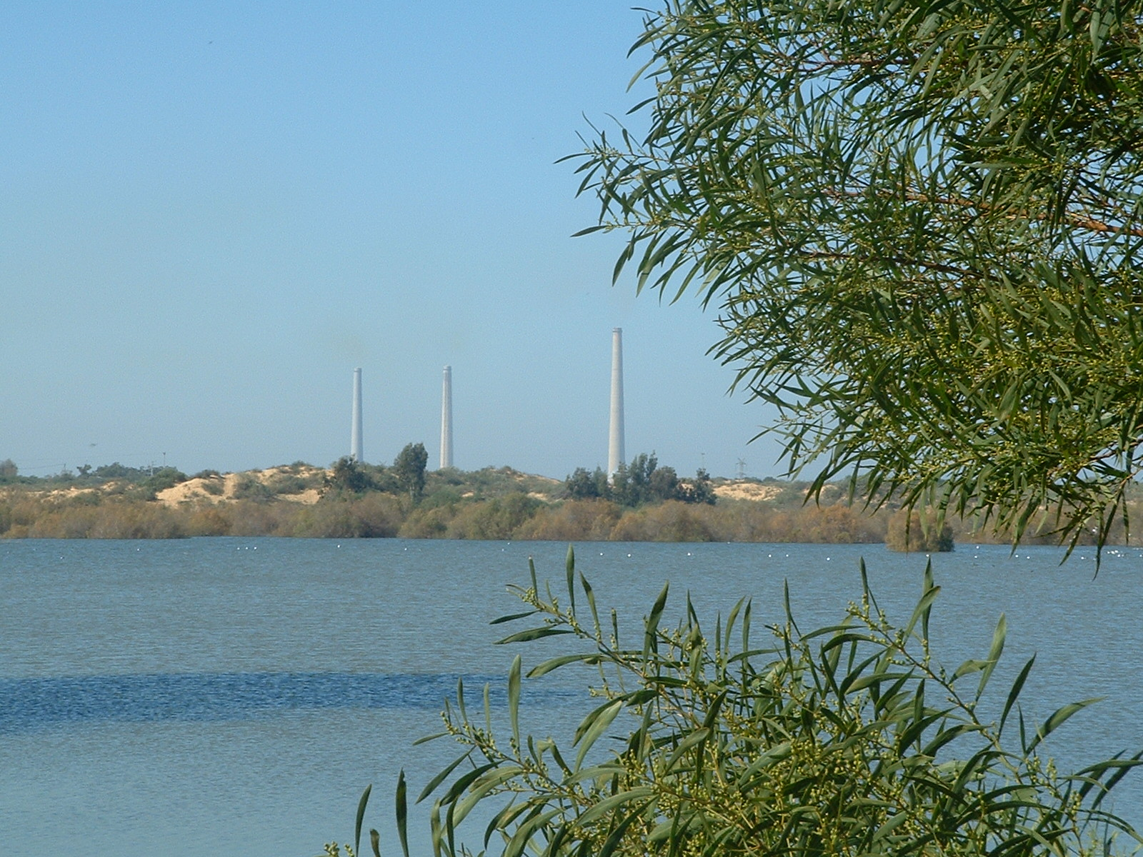 The Nahalei Menashe water project reservoir in the Caesarea dunes in Israel. The Caesarea - Hadera "Orot Rabin" power station is in the background.